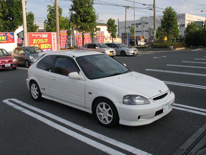 A photo of my car